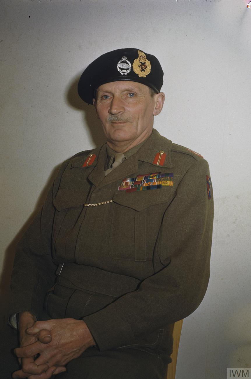 Field Marshal Sir Bernard Montgomery, 1945 Portrait of Field Marshal Montgomery wearing the beret of the Royal Tank Regiment, of which he was Colonel Commandant.